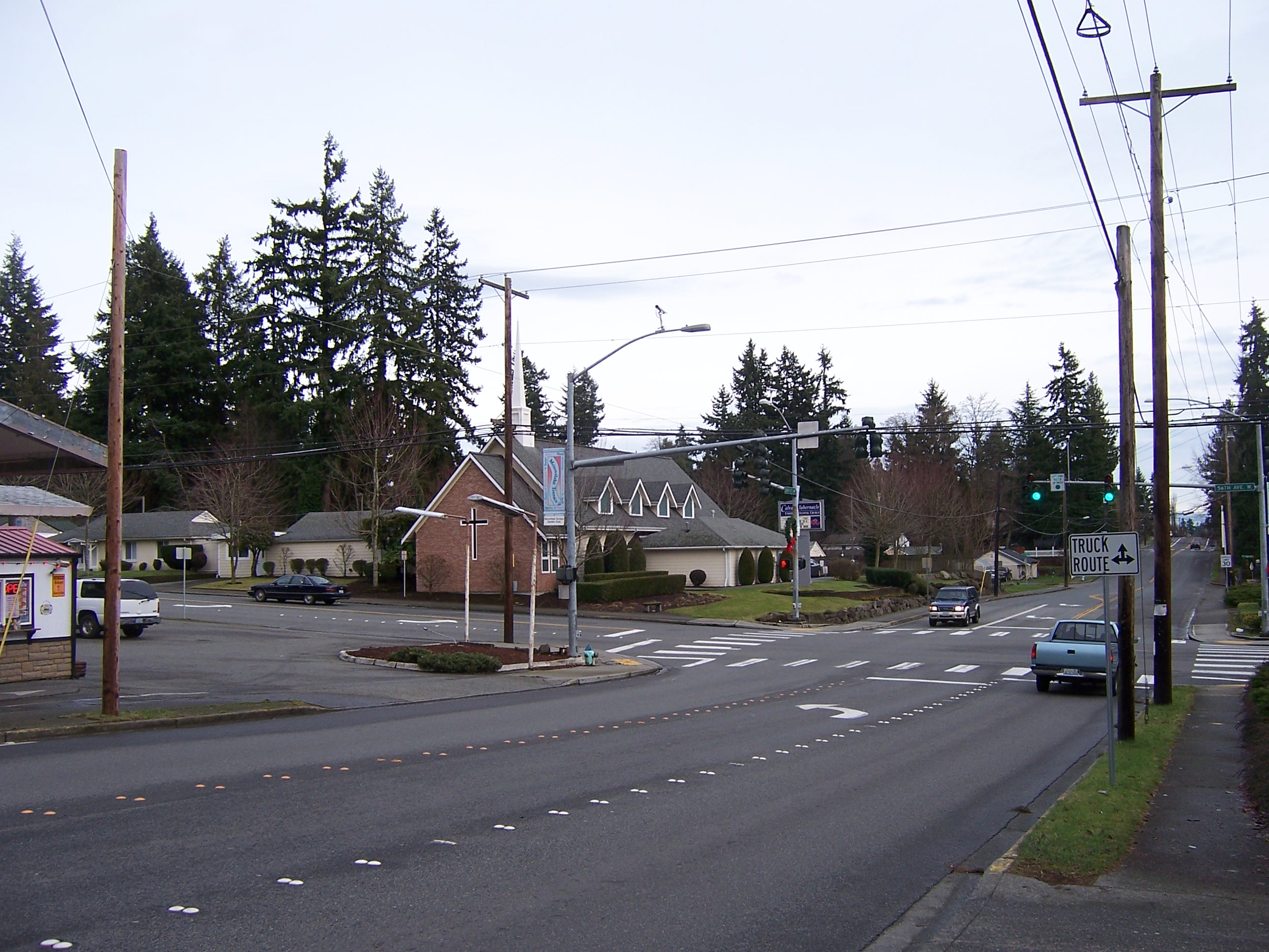 Intersection of 236th St SW and 56th Ave W in Mountlake Terrace, WA, USA, looking northeast. 56th Ave W is the cross street.